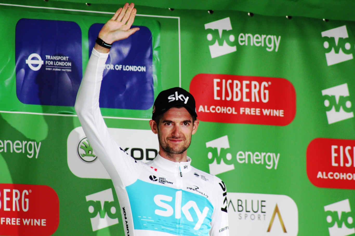 Wout Poels won one stage of the 2018 Tour of Britain and came second overall, just 17 seconds behind the winner.